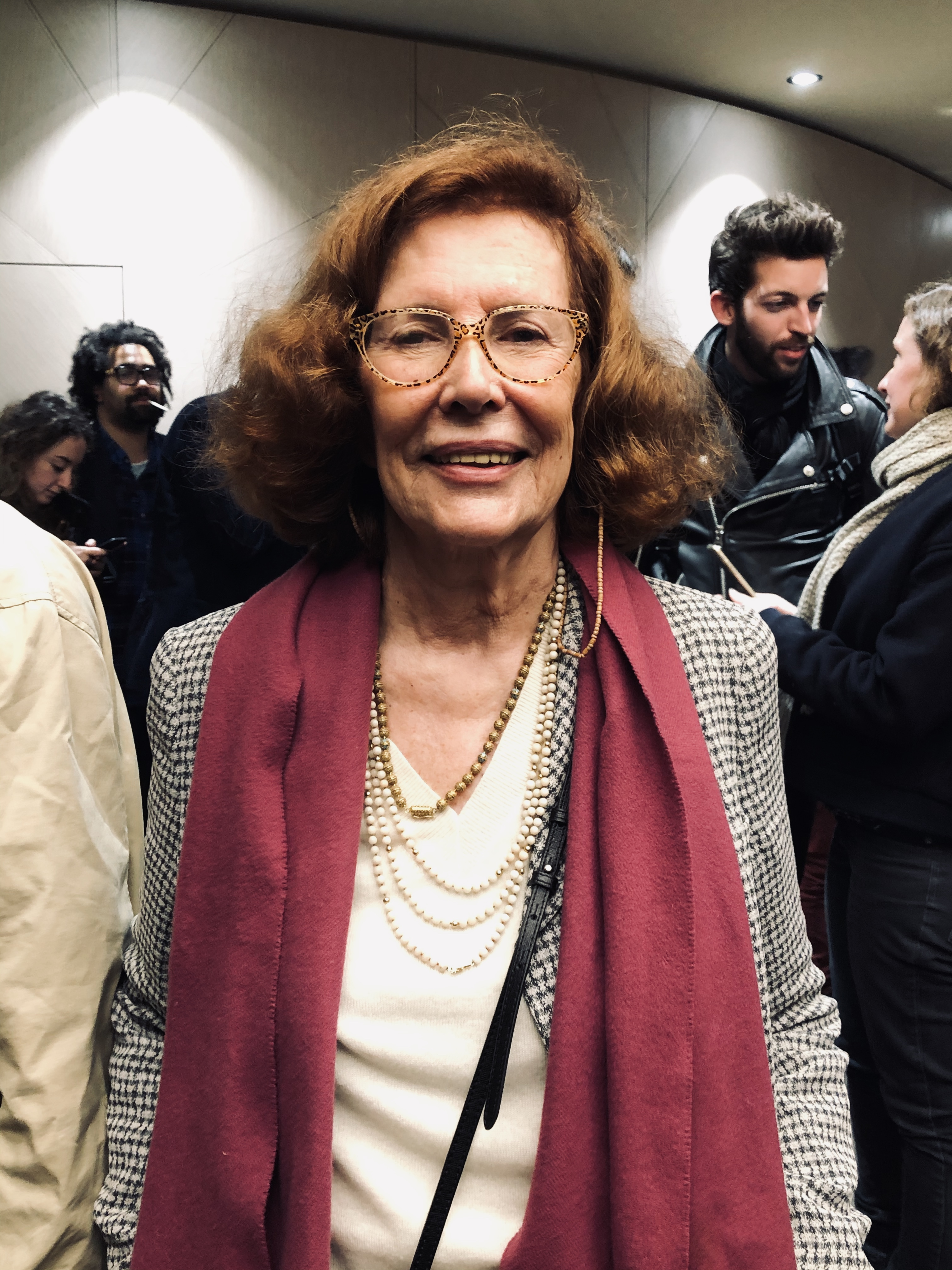 Michèle Ray-Gavras at a showing of Adults in the Room from Costa Gavras, on 23 October 2019